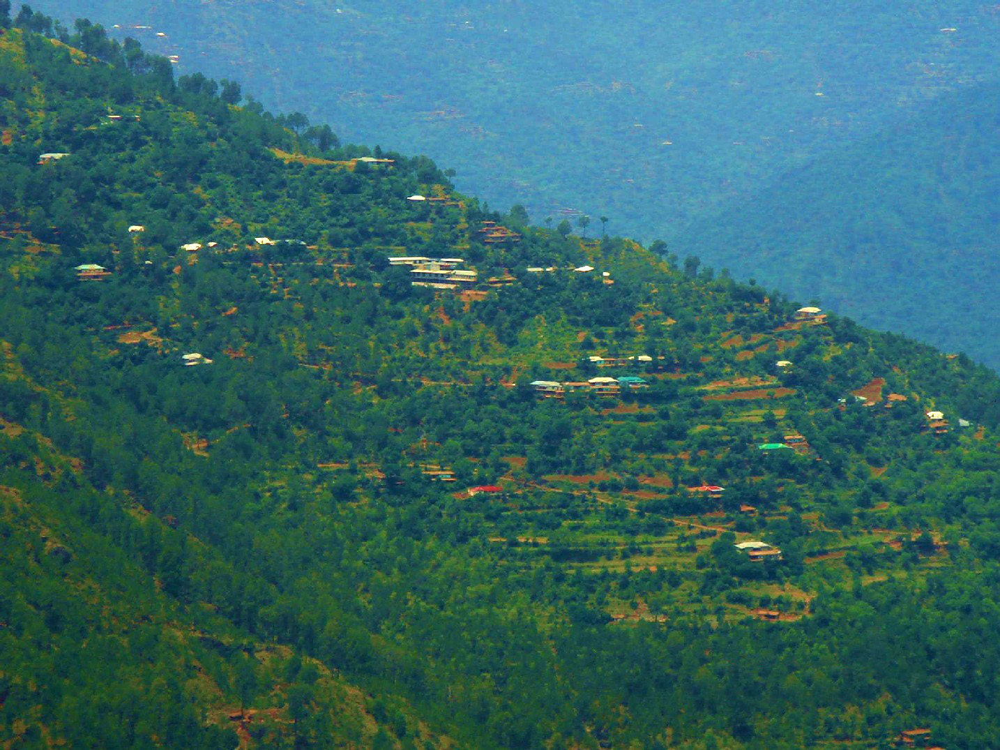 View of Bhalgran from Ner. Poonch District, Azad Kashmir, Pakistan.